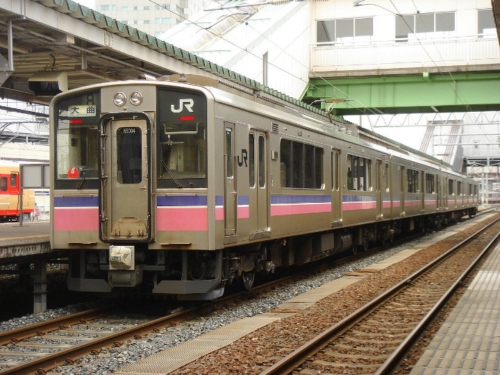 Tazawako Line standard-gauge 701-5000 series EMU at Morioka Station